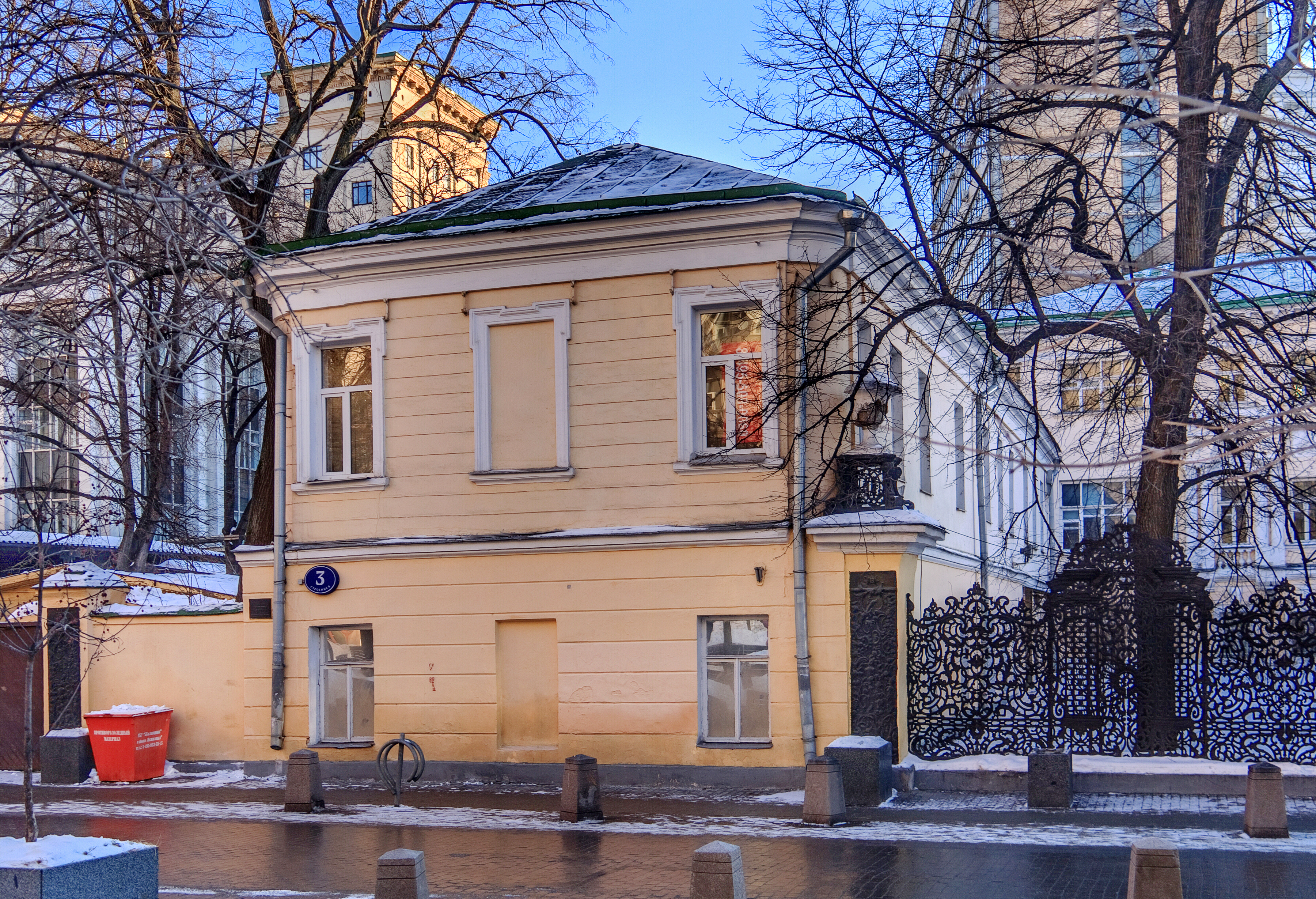 East outbuilding of the former Demidov Manor, Bolshoy Tolmachyovsky Lane 3 str 6, Moscow